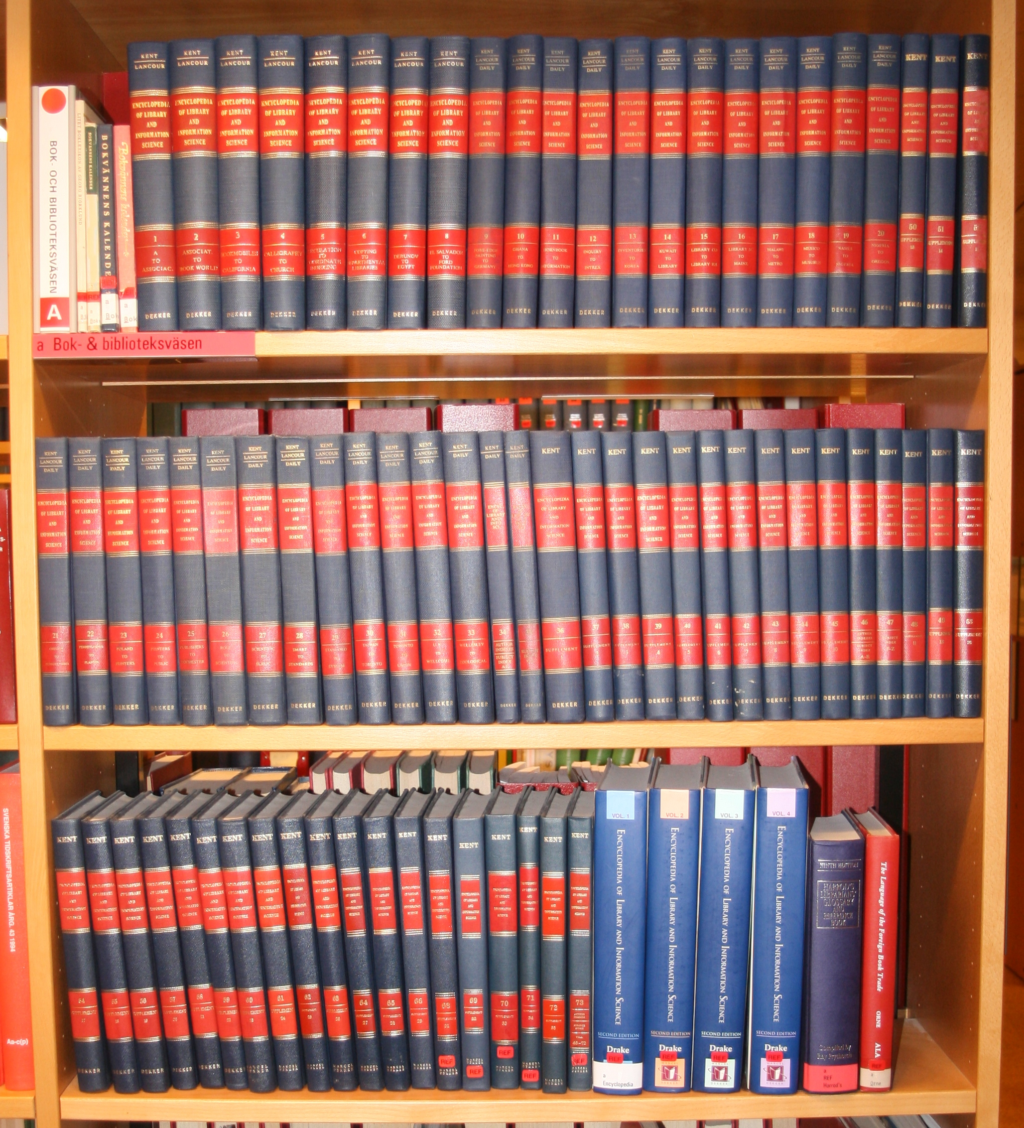 "Encyclopedia of library and information science. First edition by Kent, Allen in 73 volumes (1968-2003, blue and red spines), and 2nd edition by Miriam Drake in 4 volumes (2003, blue spines on lower shelf).